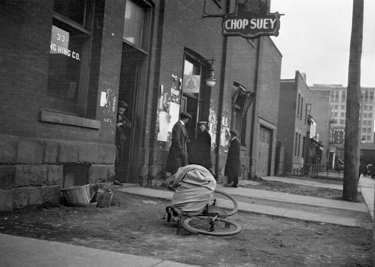 Title / Titre : Chinese quarters in Toronto, [Ontario.] / Quartier chinois de Toronto, Ontario Creator(s) / Créateur(s) : John Boyd Date(s) : April 17, 1923 / 17 Avril 1923 Reference No. / Numéro de référence : MIKAN 3316377 Location / Lieu : Toronto, Ontario Credit / Mention de source : John Boyd. Library and Archives Canada, PA-086020 / John Boyd. Bibliothèque et Archives Canada, PA-086020